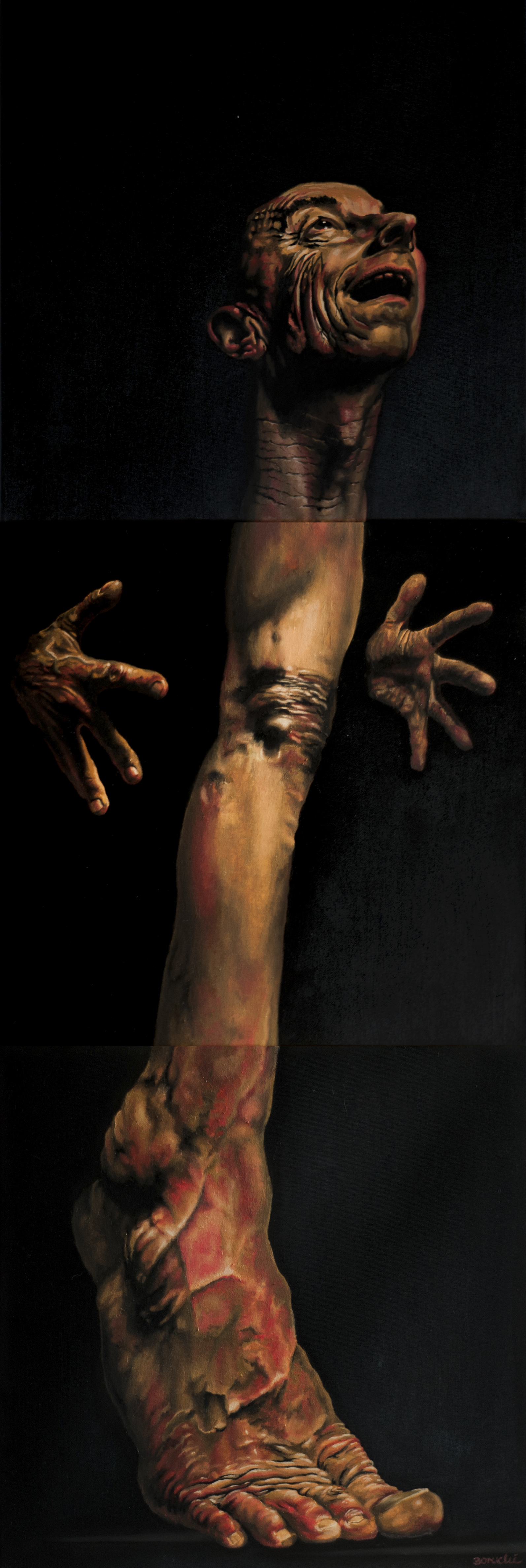 "Desire", 2017, Michał Jan Borucki, Oil on canvas, Triptych, 40x120cm